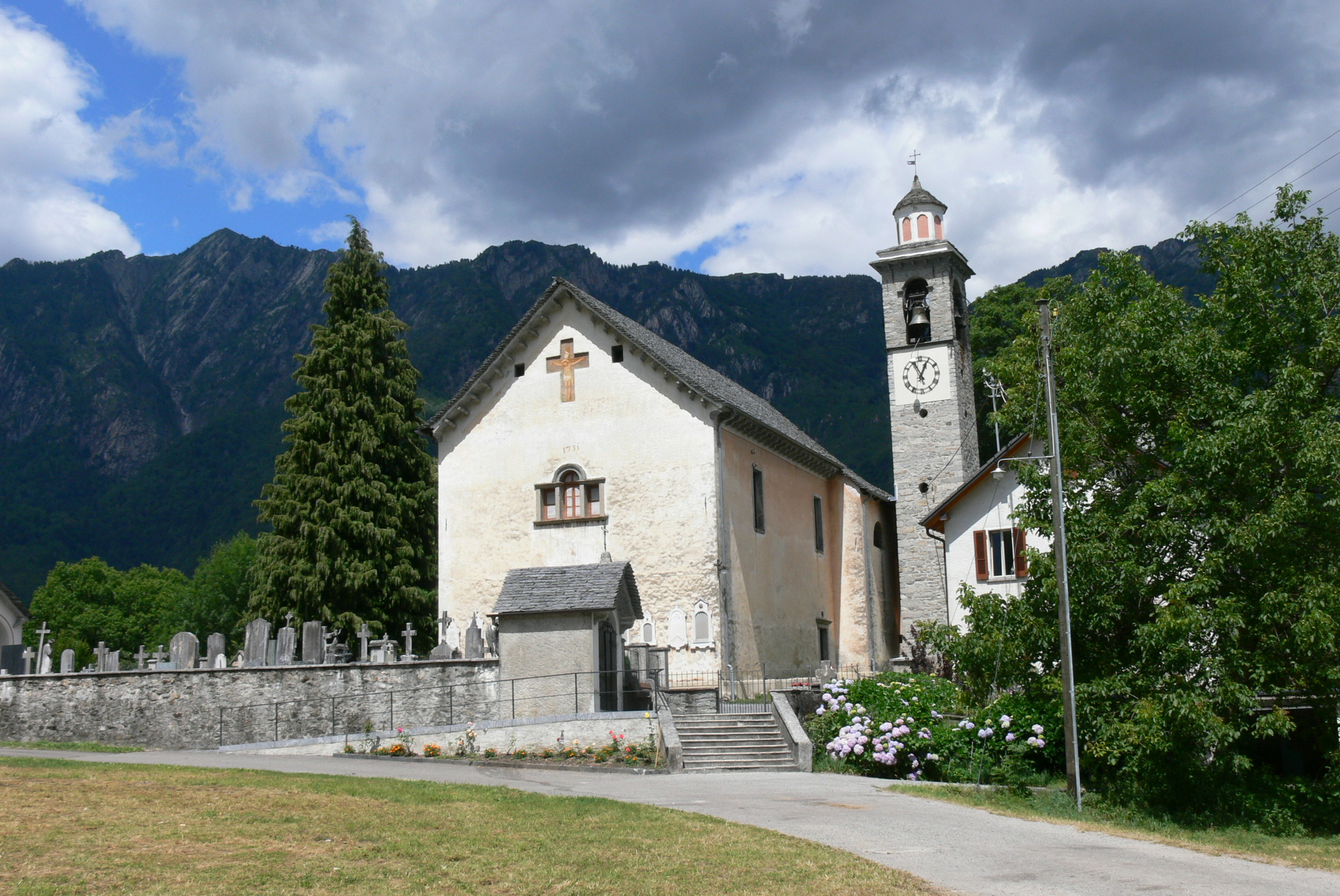 Palagnedra ( Locarno ). Saint Michael parish church.